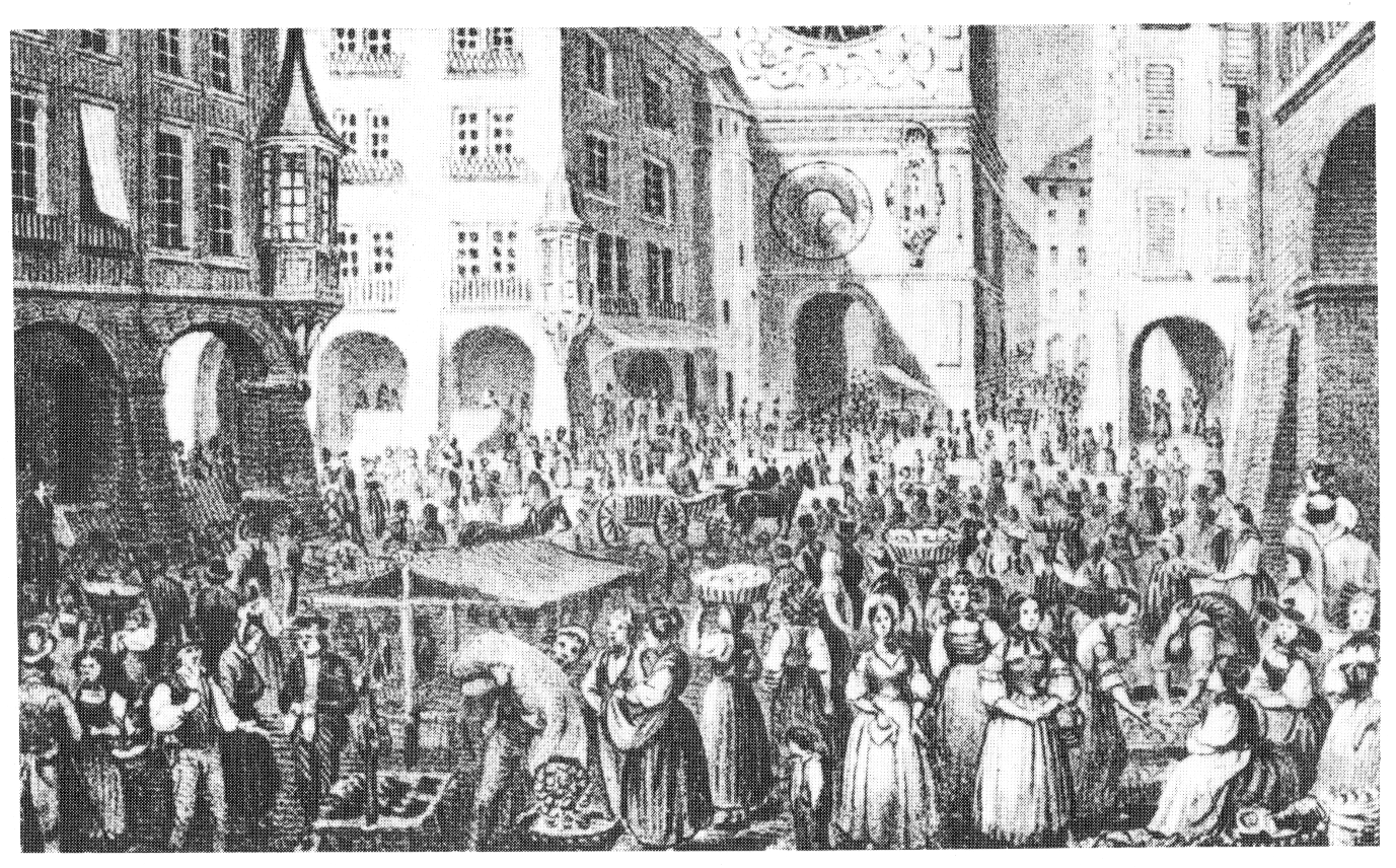 Market day in the Kramgasse, Berne, Switzerland, sometime during the 19th century.